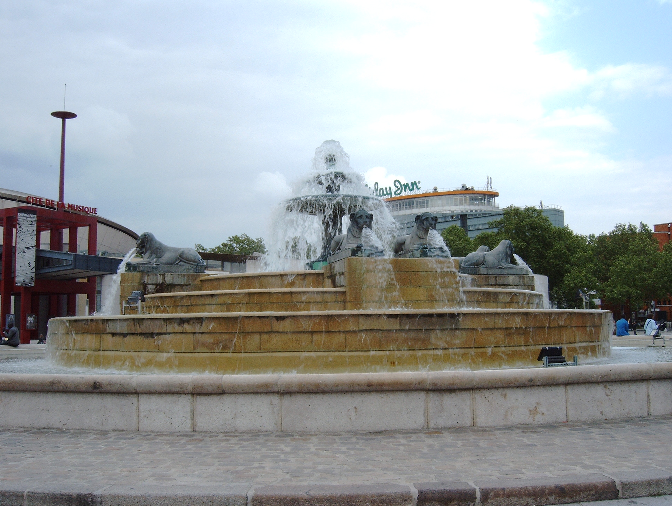 Fountain created by Pierre-Simon Girard in 1811 in Paris. Creator:Pierre-Simon Girard